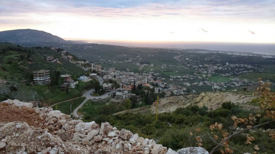 بلدة برقايل